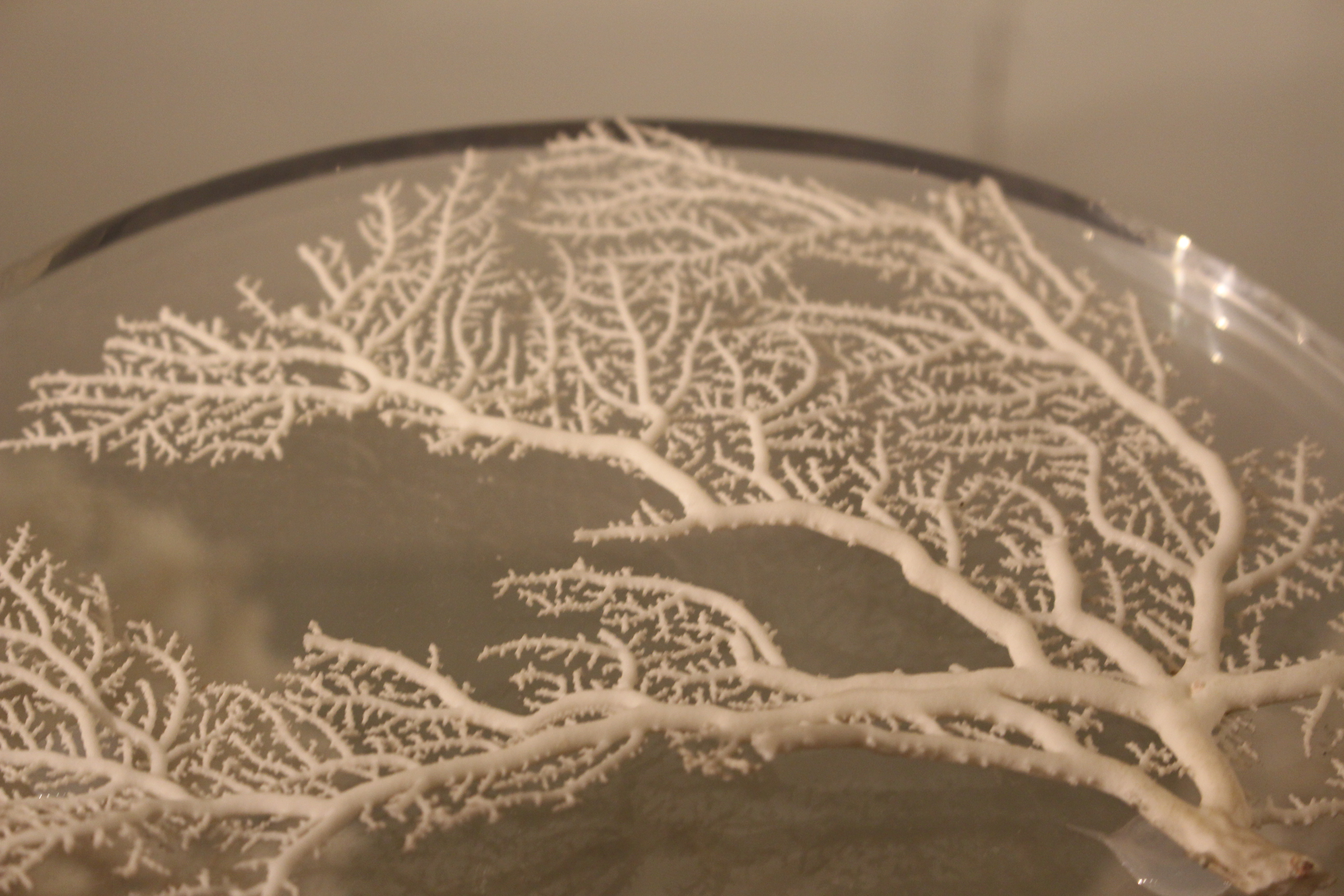 Stylaster flabelliformis at the Natural History Museum in London, England.